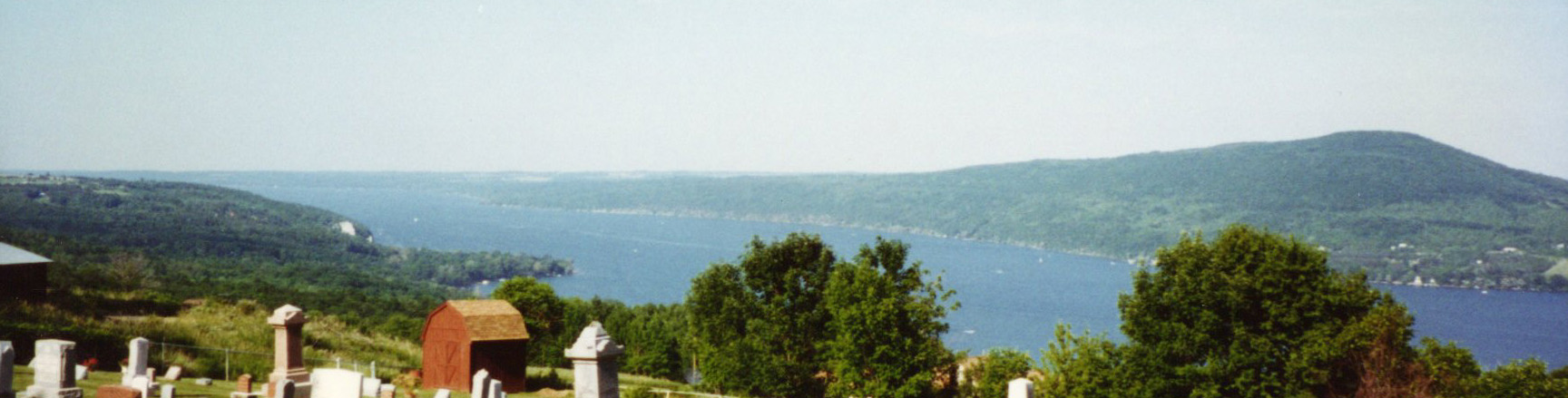 View of Canandaigua Lake, taken from the Western Shore.